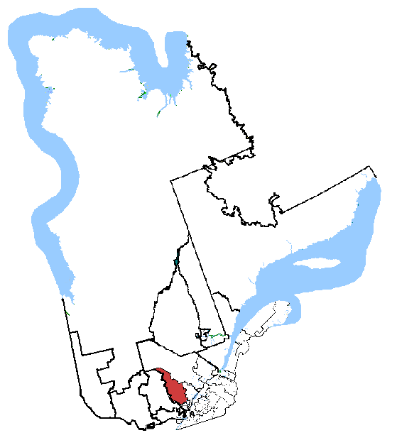 Map of the Joliette electoral district. Based on Earl Andrew's maps, created by SimonP.